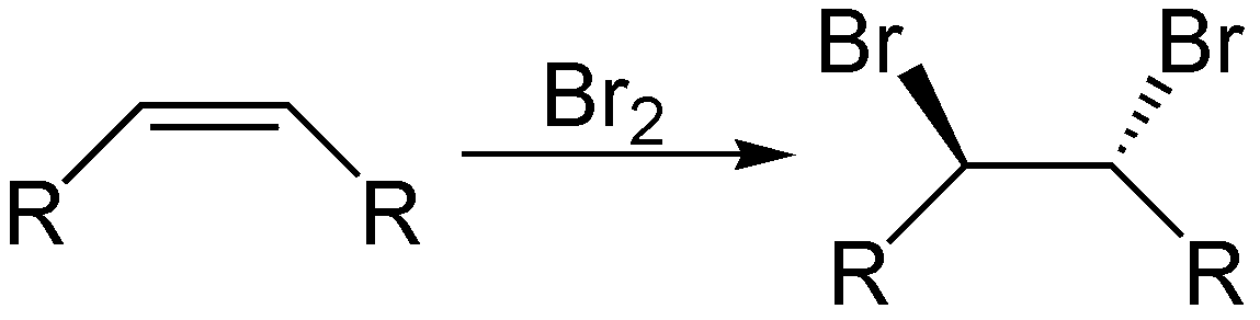 anti-addition of bromine to an alkene